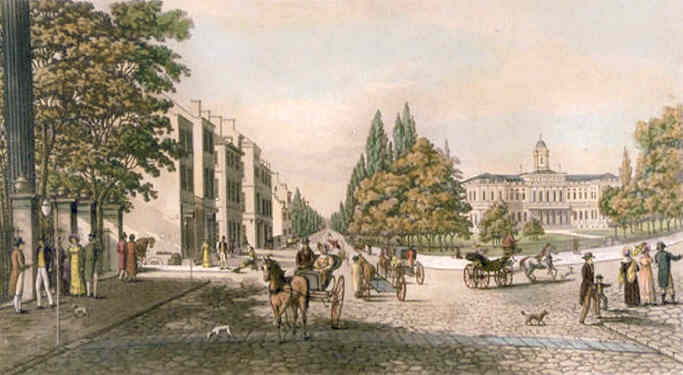 New York, Bropadway and the City Hall Park 1819